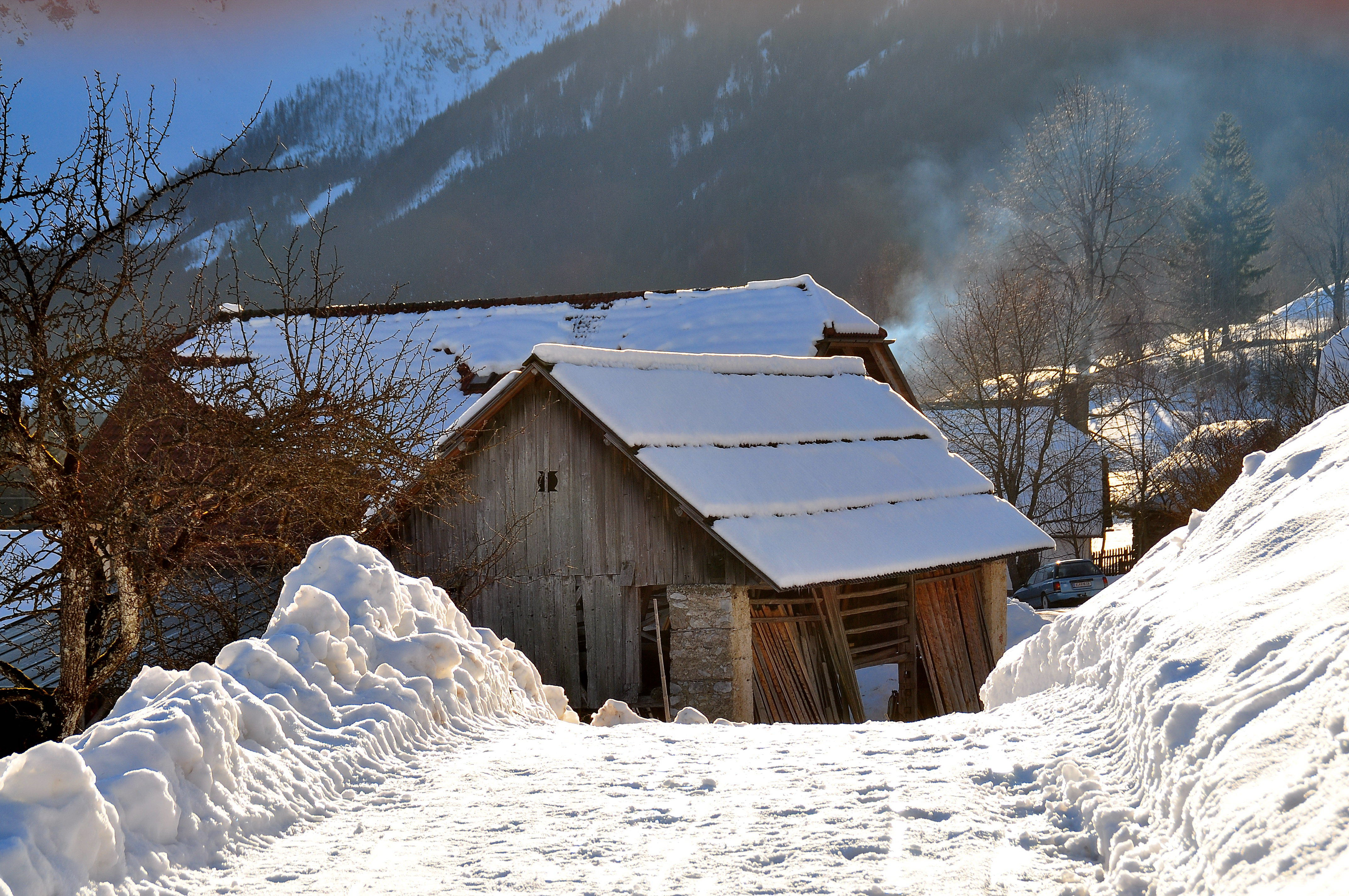 Hayrack at Bodental, municipality Ferlach, district Klagenfurt Land, Carinthia / Austria / EU